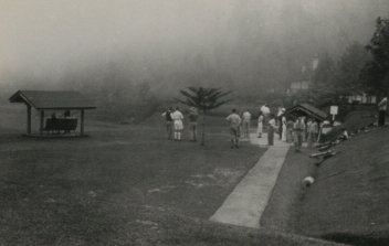 Fraser's Hill. K.L. Location: Kuala Lampur, Malaya Date: 1935 Description: Hong Fak Tin. Location: Malaya Date: 1935 Our Catalogue Reference: Part of CO 1069/506. This image is part of the Colonial Office photographic collection held at The National Archives. Feel free to share it within the spirit of the Commons. Please use the comments section below the pictures to share any information you have about the people, places or events shown. We have attempted to provide place information for the images automatically but our software may not have found the correct location.